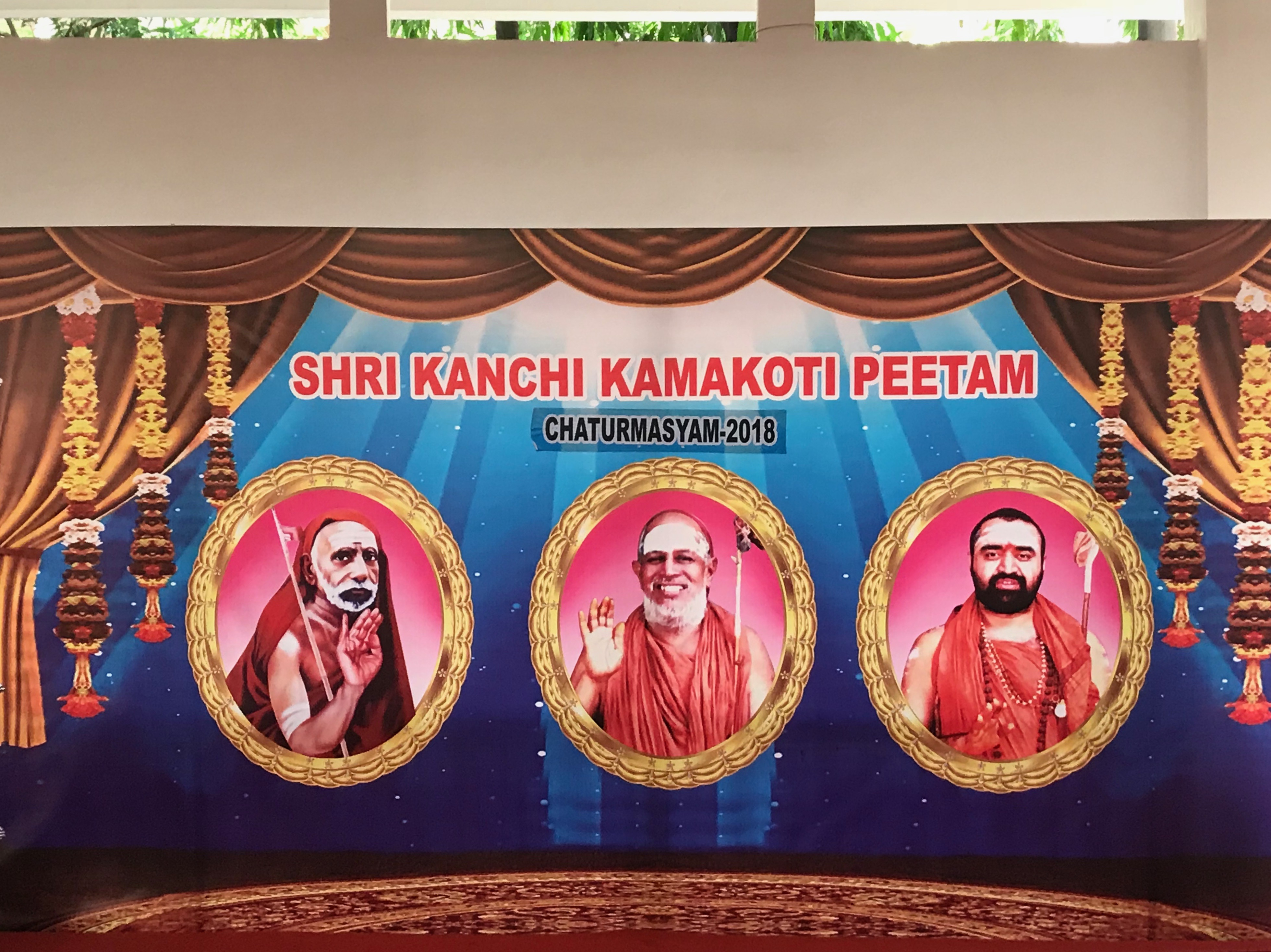 Kanchi Kamakoti Peetham, Kanchipuram Tamil Nadu